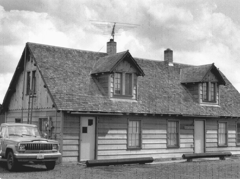 Bunkhouse (building #1306) at the historic Unity Ranger Station in Unity, Oregon; view of west facing facade